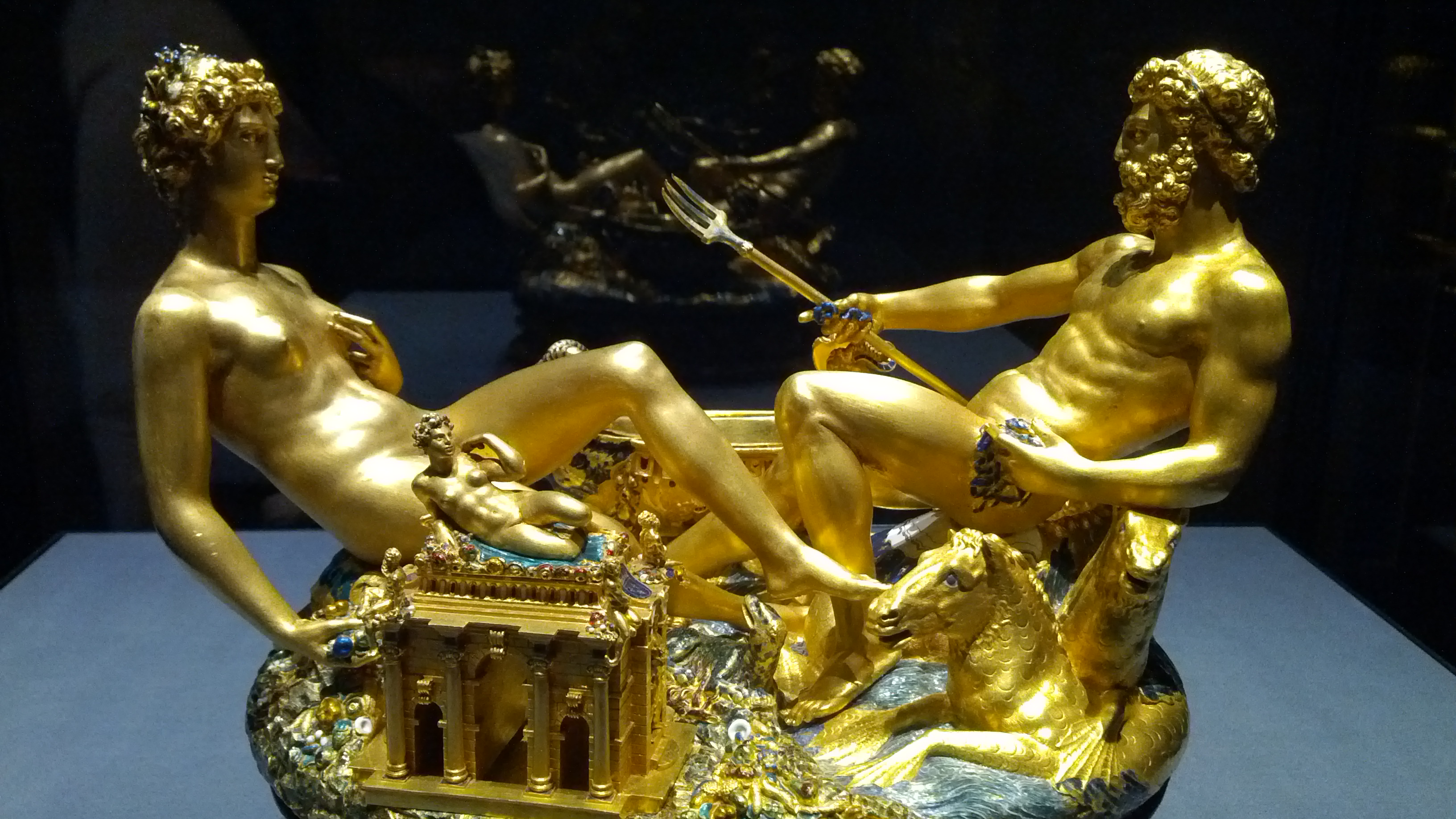 Saliera, Benvenuto Cellini